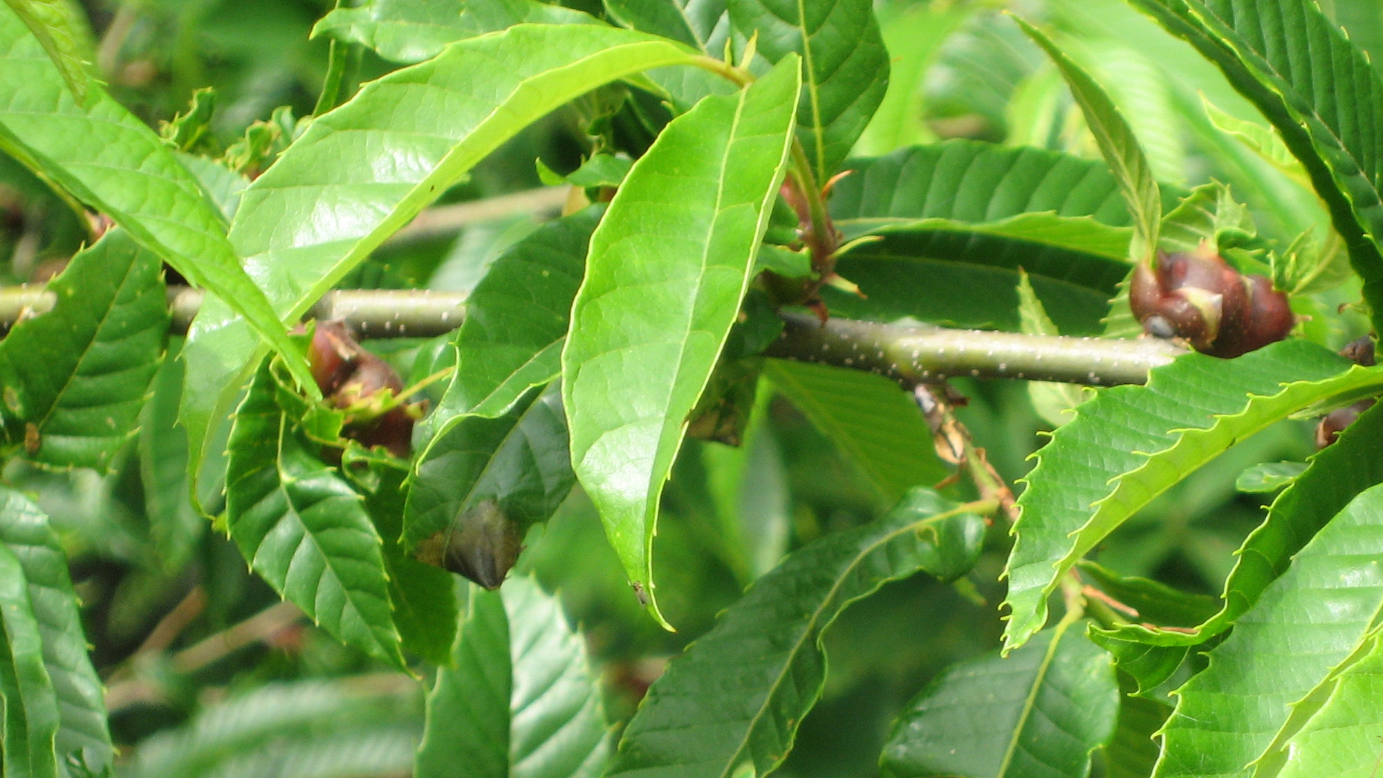 Galls caused by Oriental Chestnut gall wasp on Japanese Chestnut. I took this image at Kayumi Iinan Matsusaka, Mie Prefecture, Japan.